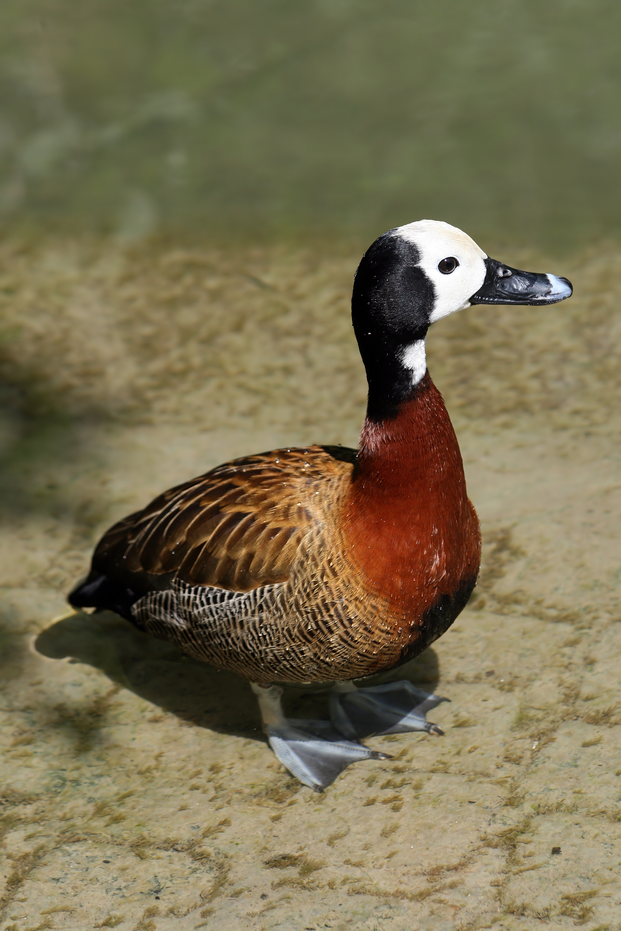 An adult White-faced Whistling-duck (Dendrocygna viduata) at Hellabrunn Zoo, Munich, Germany.